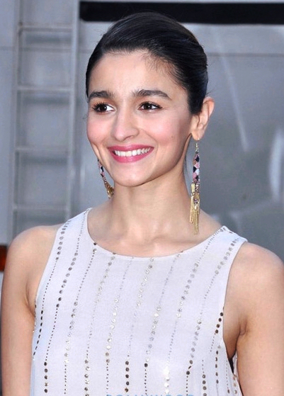 Alia Bhatt promoting Badrinath Ki Dulhania in 2017